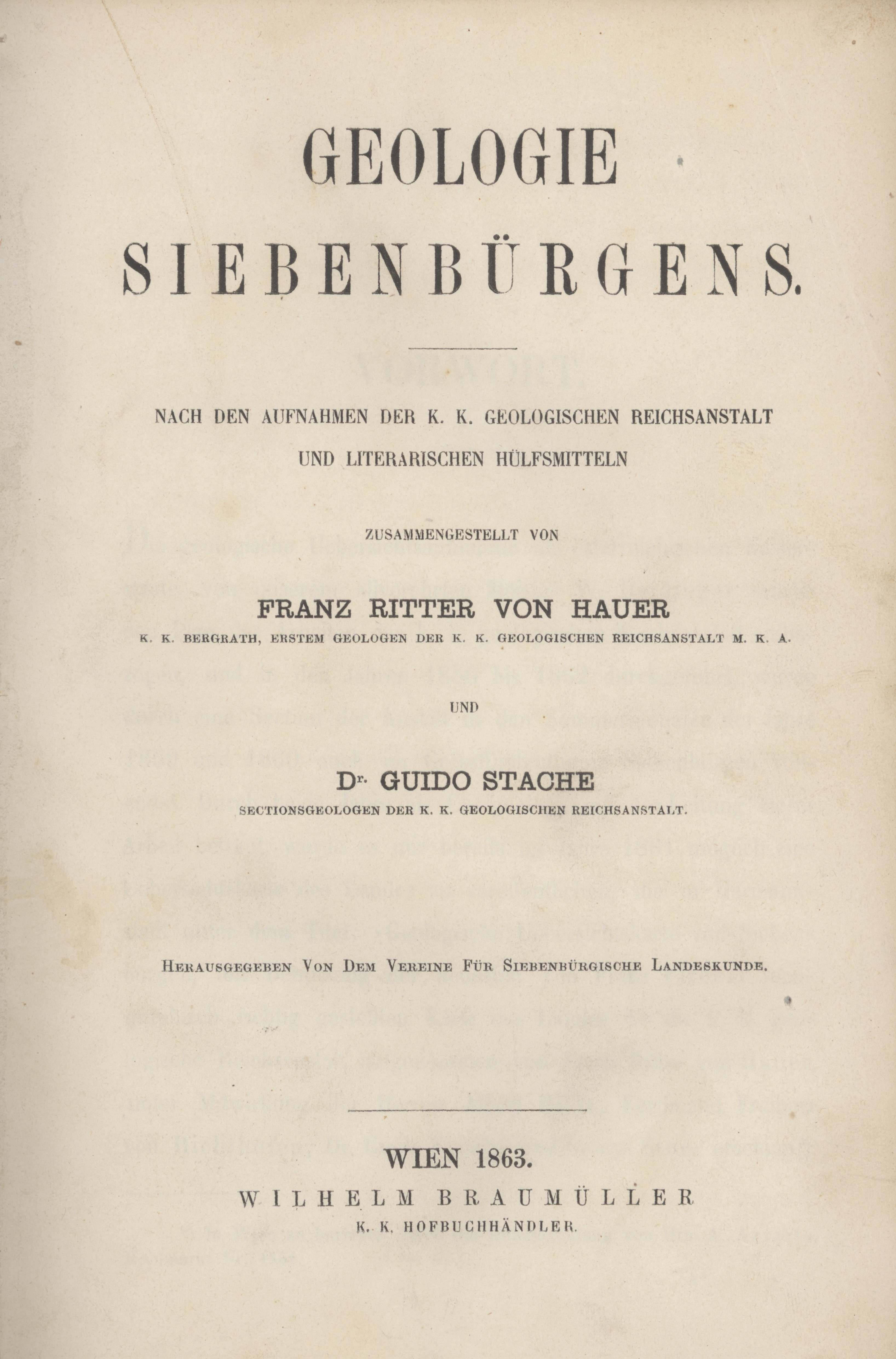 title page "Geology of Transsylvania" (Hauer, Stache) 1863